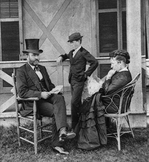 Ulysses S. Grant seated on porch with his wife, Julia, and son, Jesse.